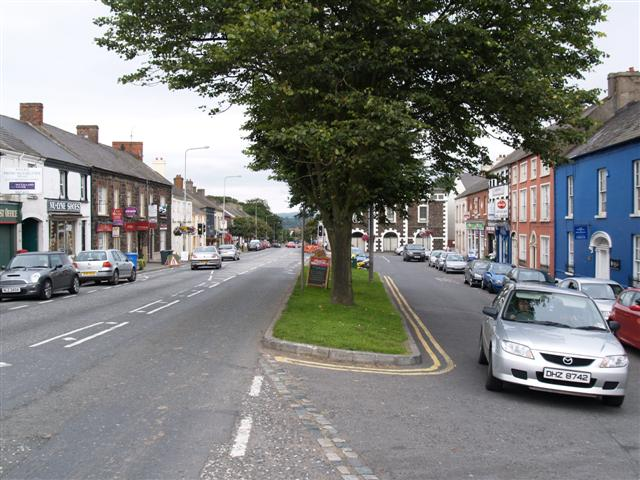 Moira Main Street Looking north-east